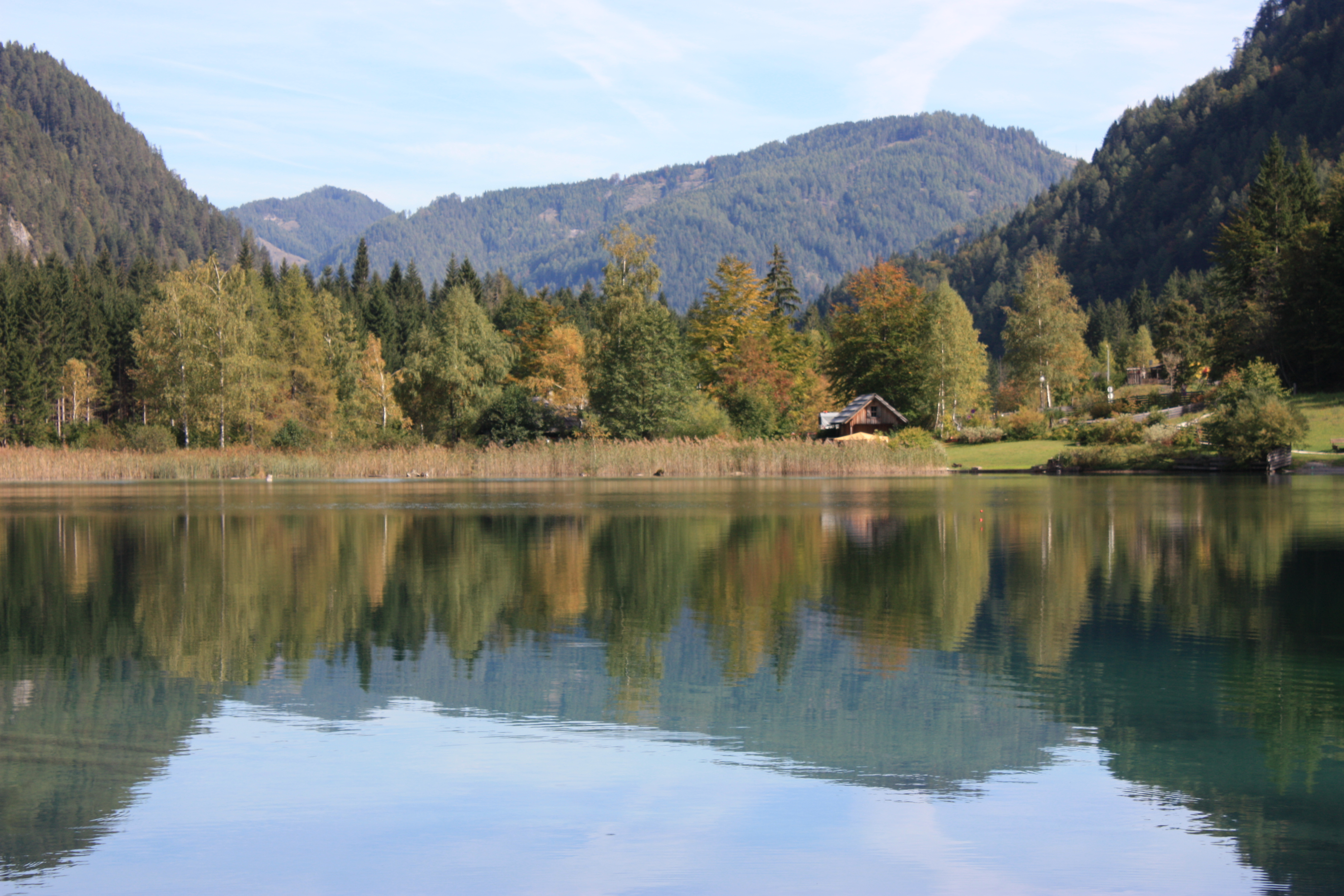 East beach Locality:Weißensee Community:Weißensee